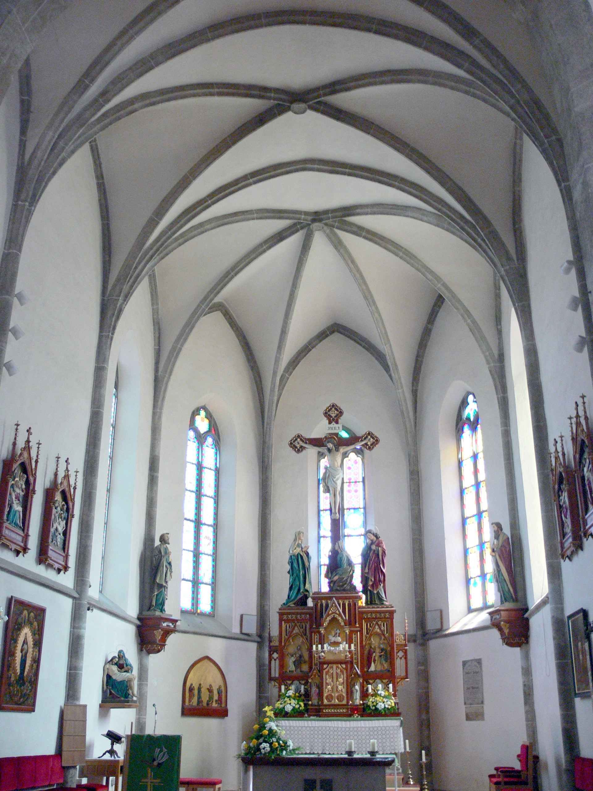 Pötting - parish church of the Holy Cross: Interior